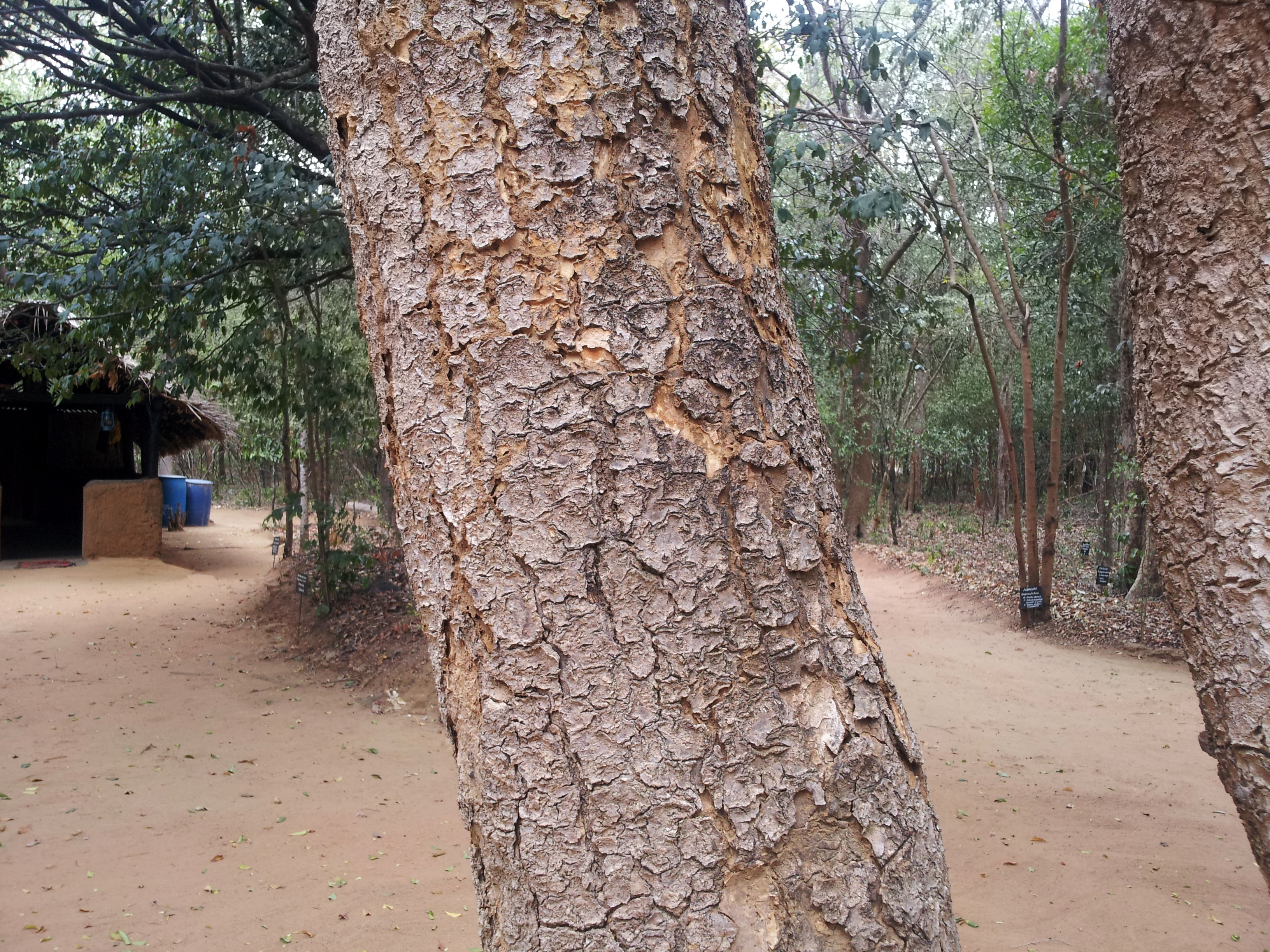 Chloroxylon stem